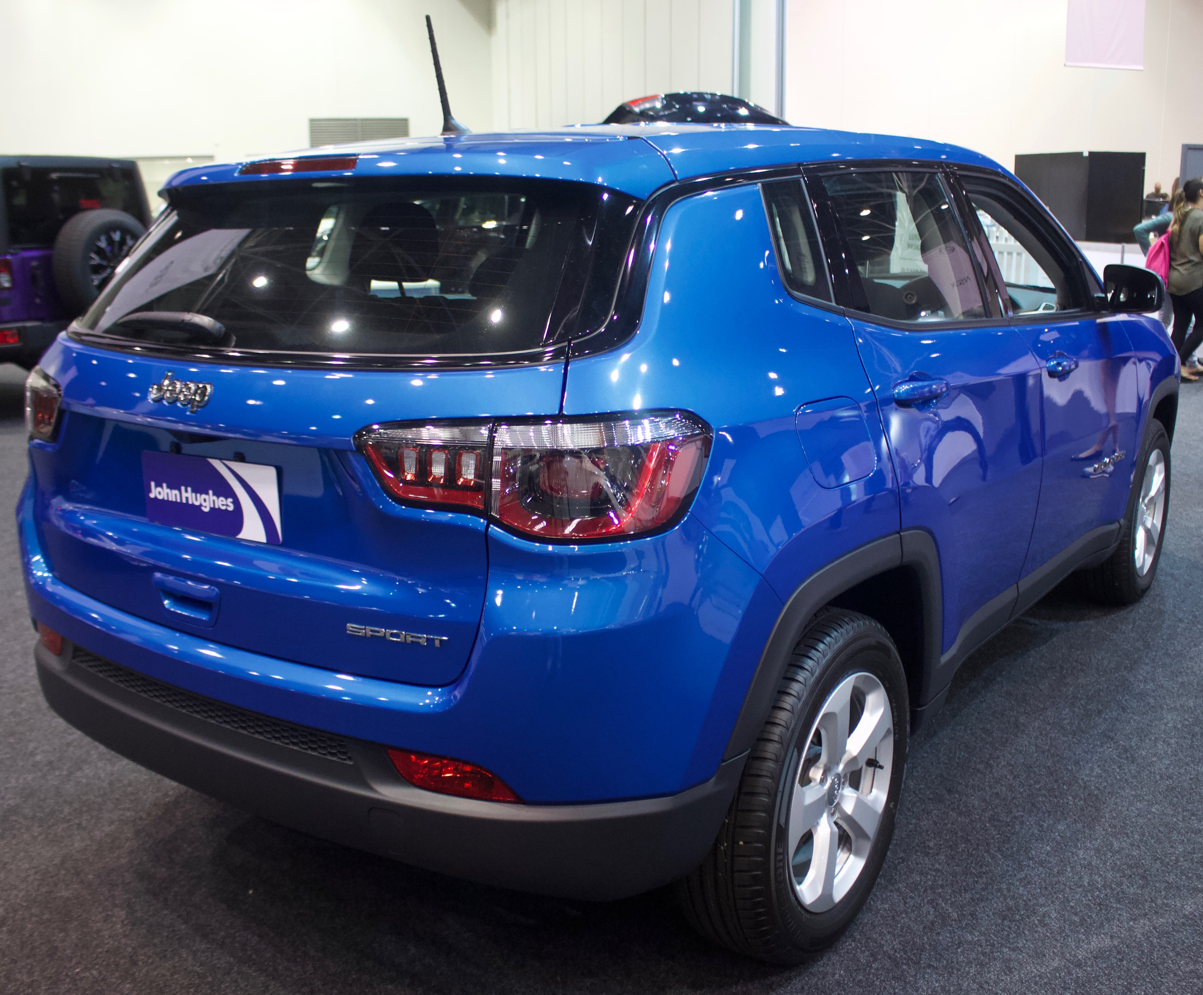 2018 Jeep Compass (MP MY18) Sport wagon. Photographed at the 2018 Motor Pavilion at Perth Convention and Exhibition Centre, Perth, Western Australia, Australia.